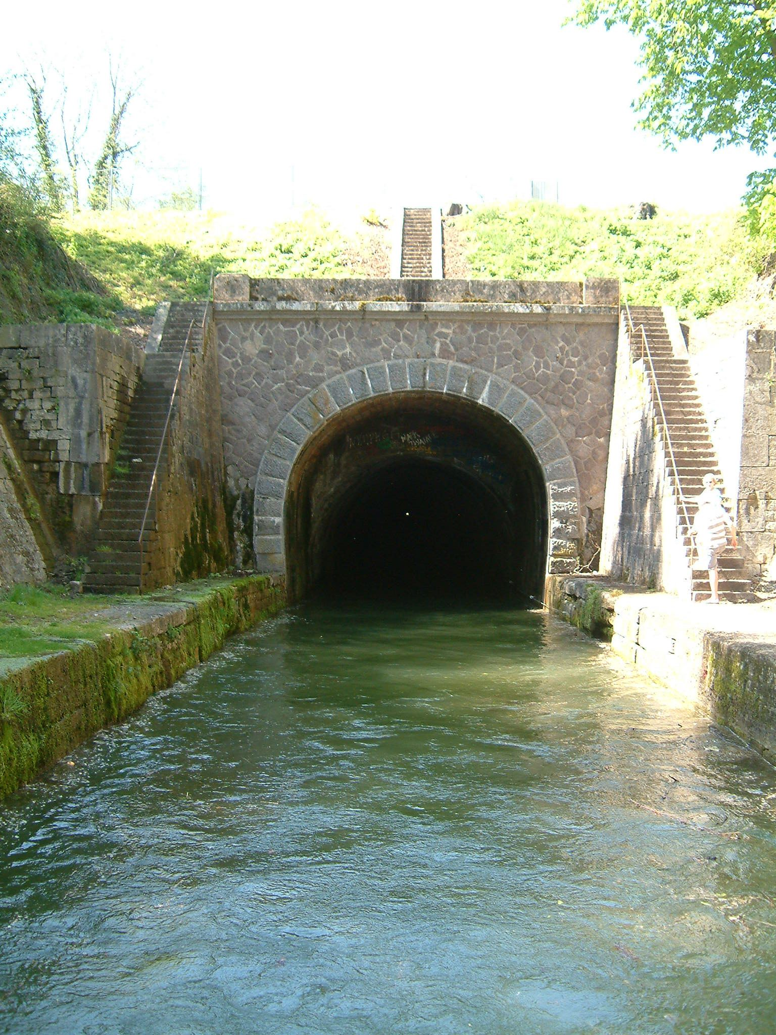 Canal of Burgundy, France